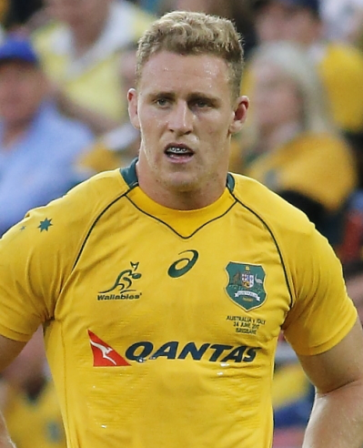 2017.06.24.16.45.22-Reece Hodge-0001 The 2017 mid-year rugby union internationals, 24 June 2017, Australia vs Italy at Suncorp Stadium, Brisbane